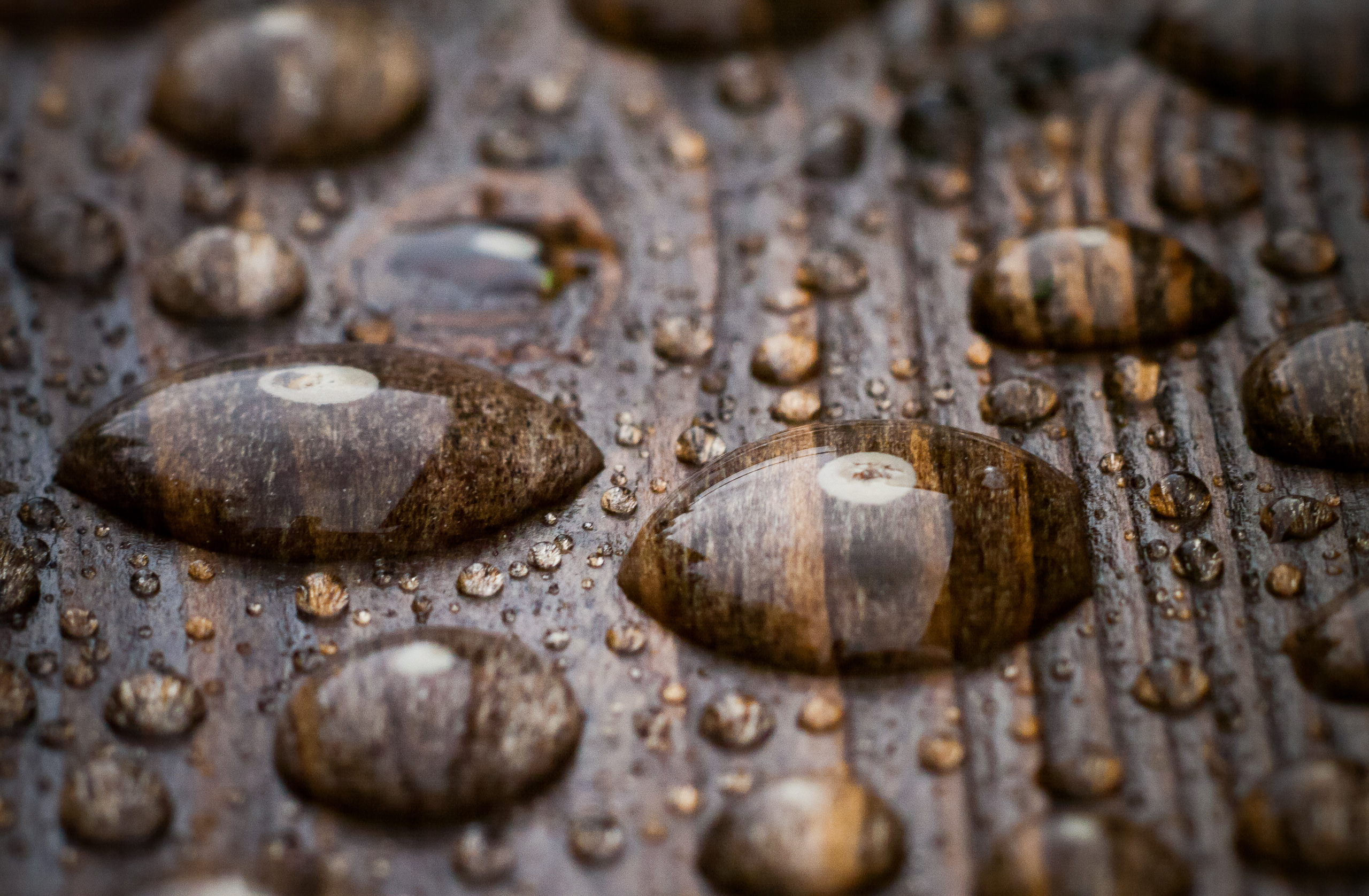 Oil and water